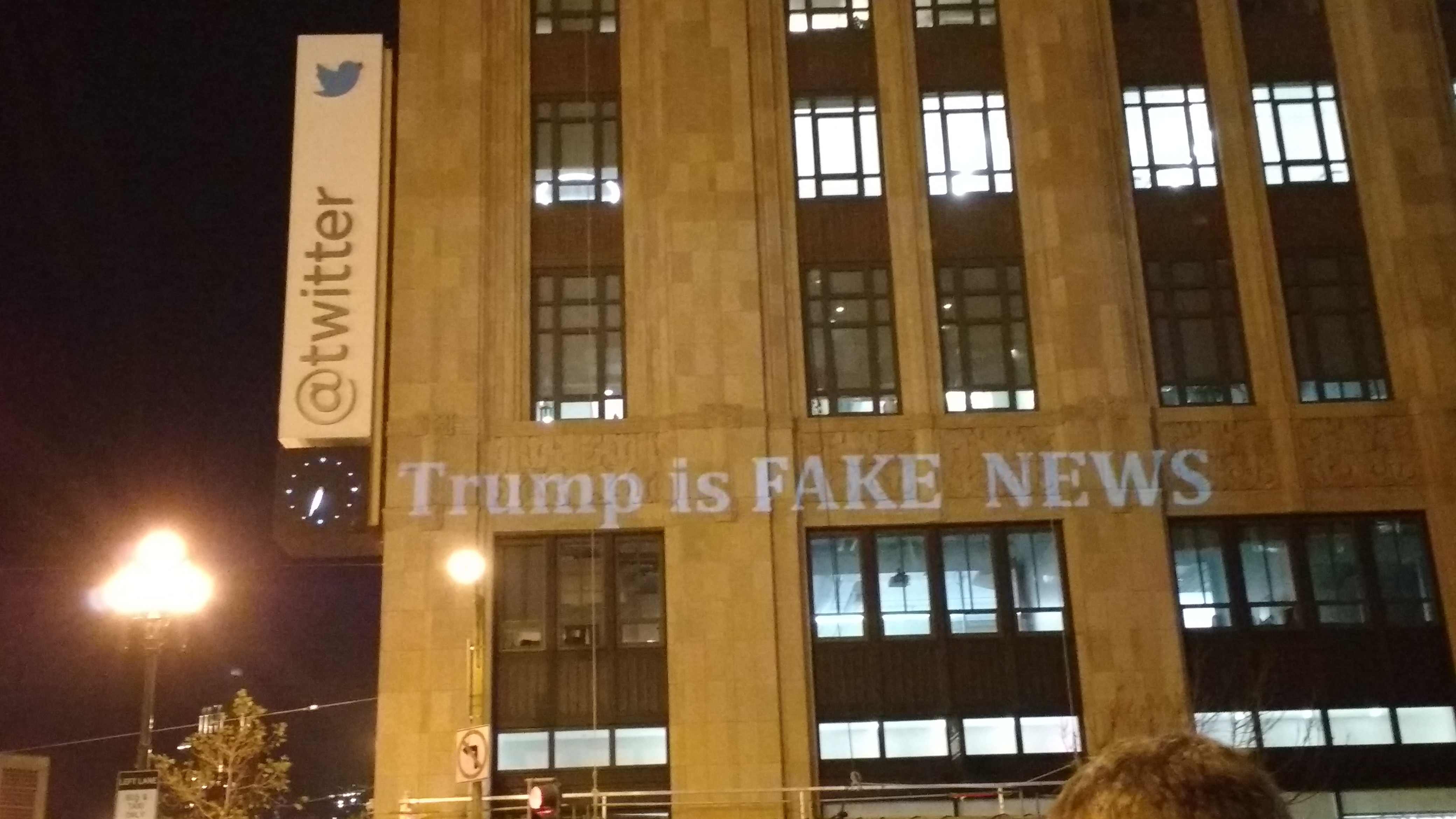 The Twitter headquarters in San Francisco, CA, with a projection by protestors saying "Trump is fake news", on February 11th 2017